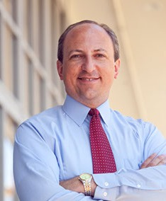 Head Shot of Clackamas County Commission Chair Candidate Dave Hunt